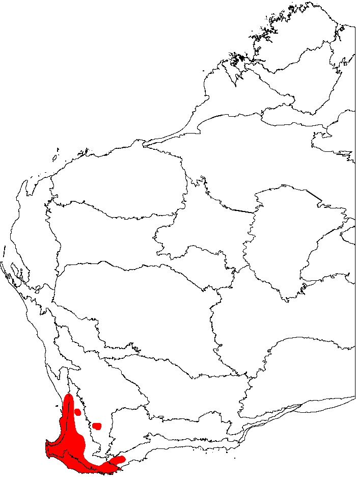 This is a map of Western Australia, showing the distribution of Basket Flower superimposed on a background of the IBRA 6.1 biogeographic regions.